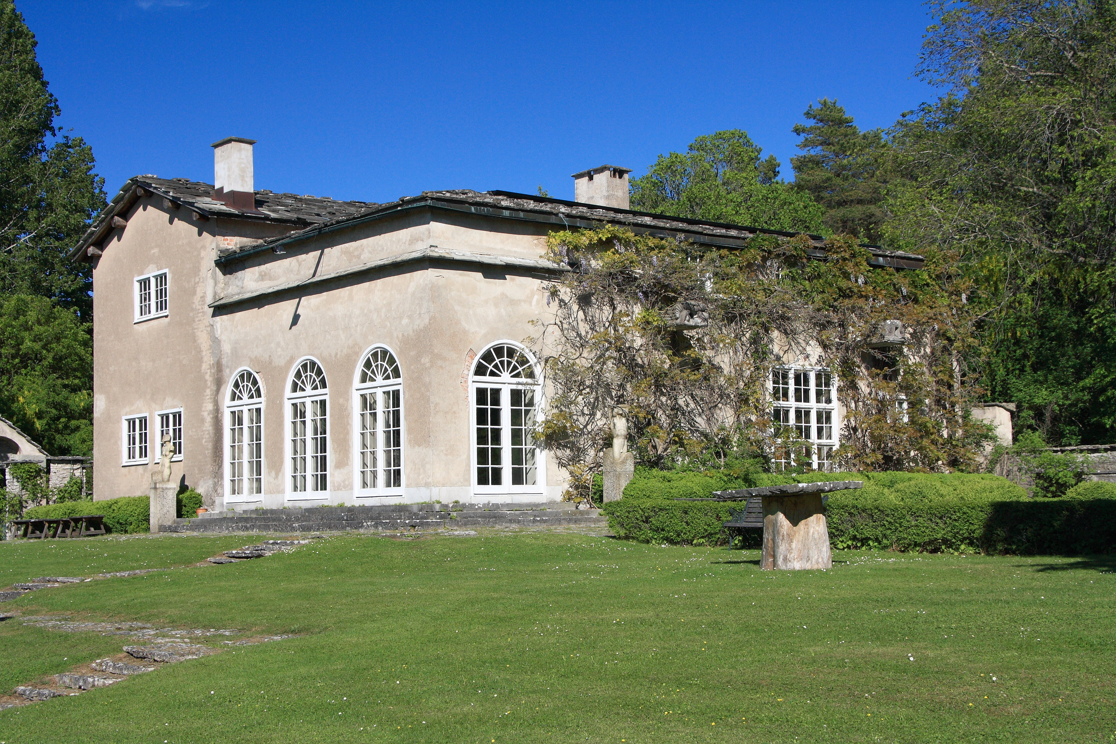 Villa Muramaris, seen from the parc